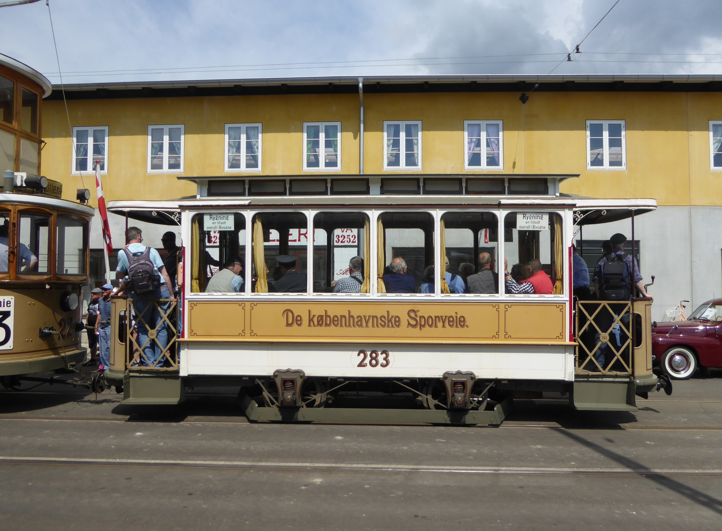 40 years anniversary of the tramway museum Sporvejsmuseet Skjoldenæsholm in Denmark. Old tram trailer from Copenhagen, DKS 283 from 1872.